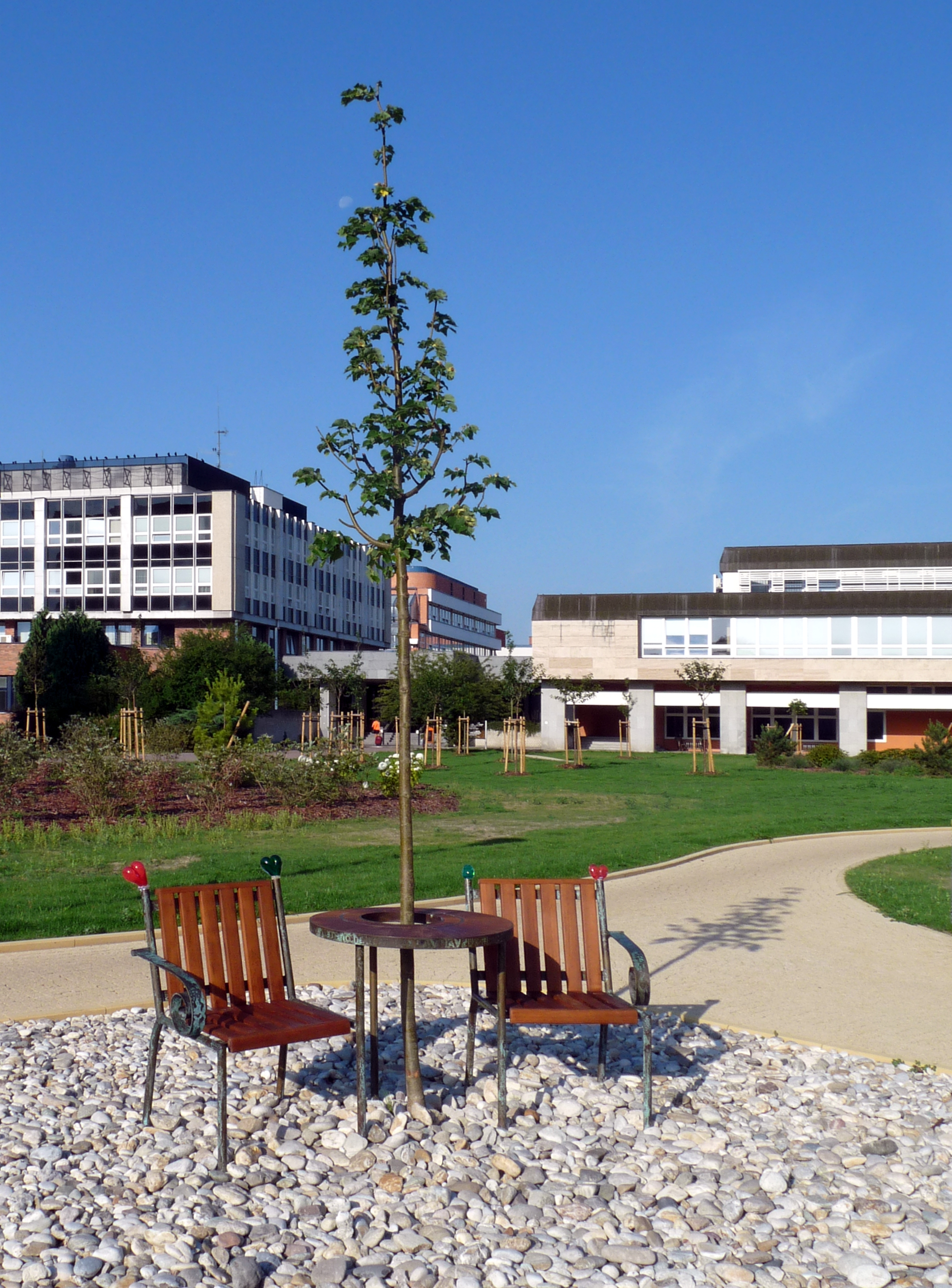 Havel's Place opened on June 11 2014 in the University of South Bohemia campus, České Budějovice, South Bohemian Region, Czech Republic.